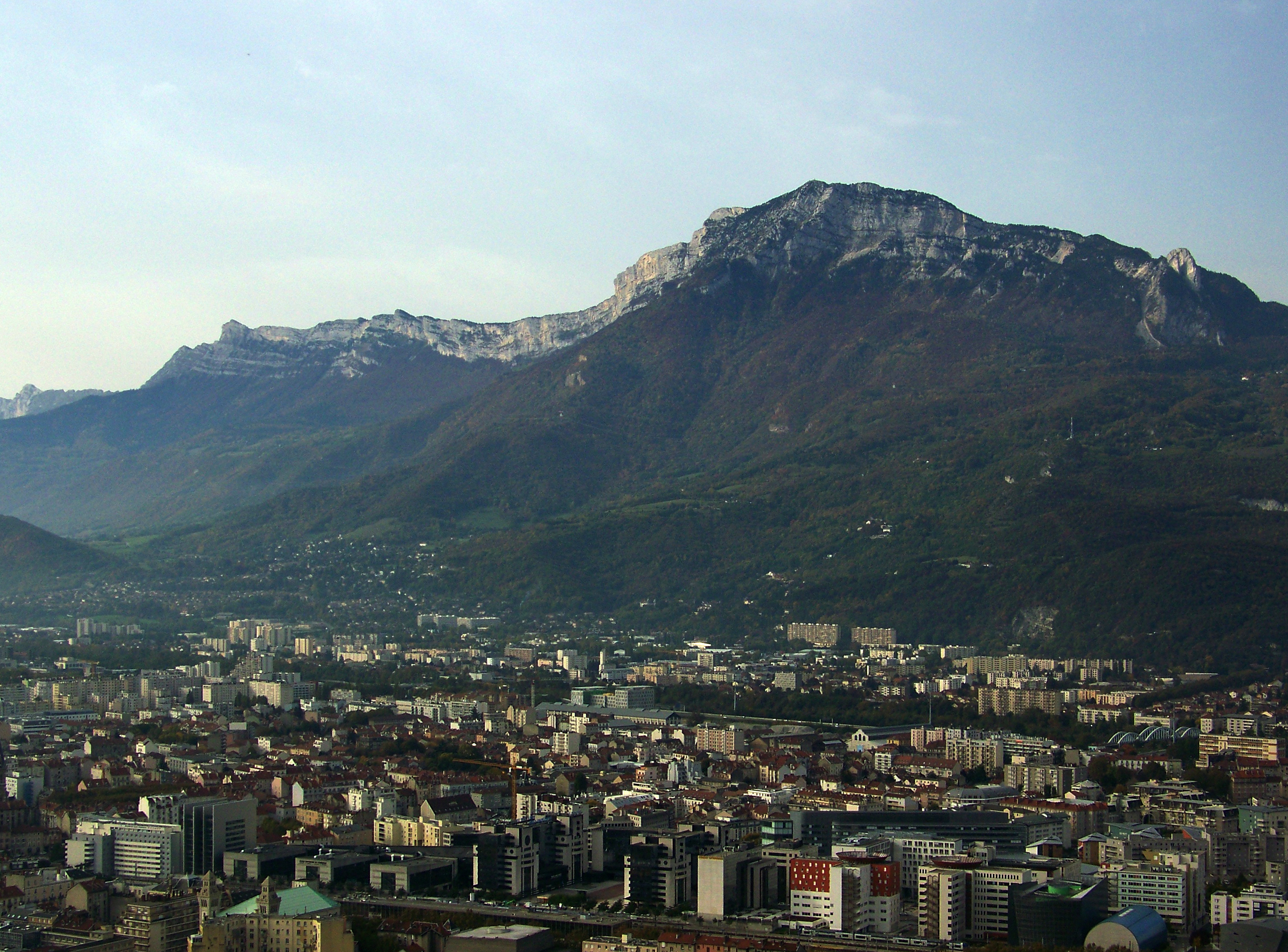 Mount Moucherotte (in the Vercors massif), as seen from the Bastille over Grenoble (Isère, Rhône-Alpes, France).